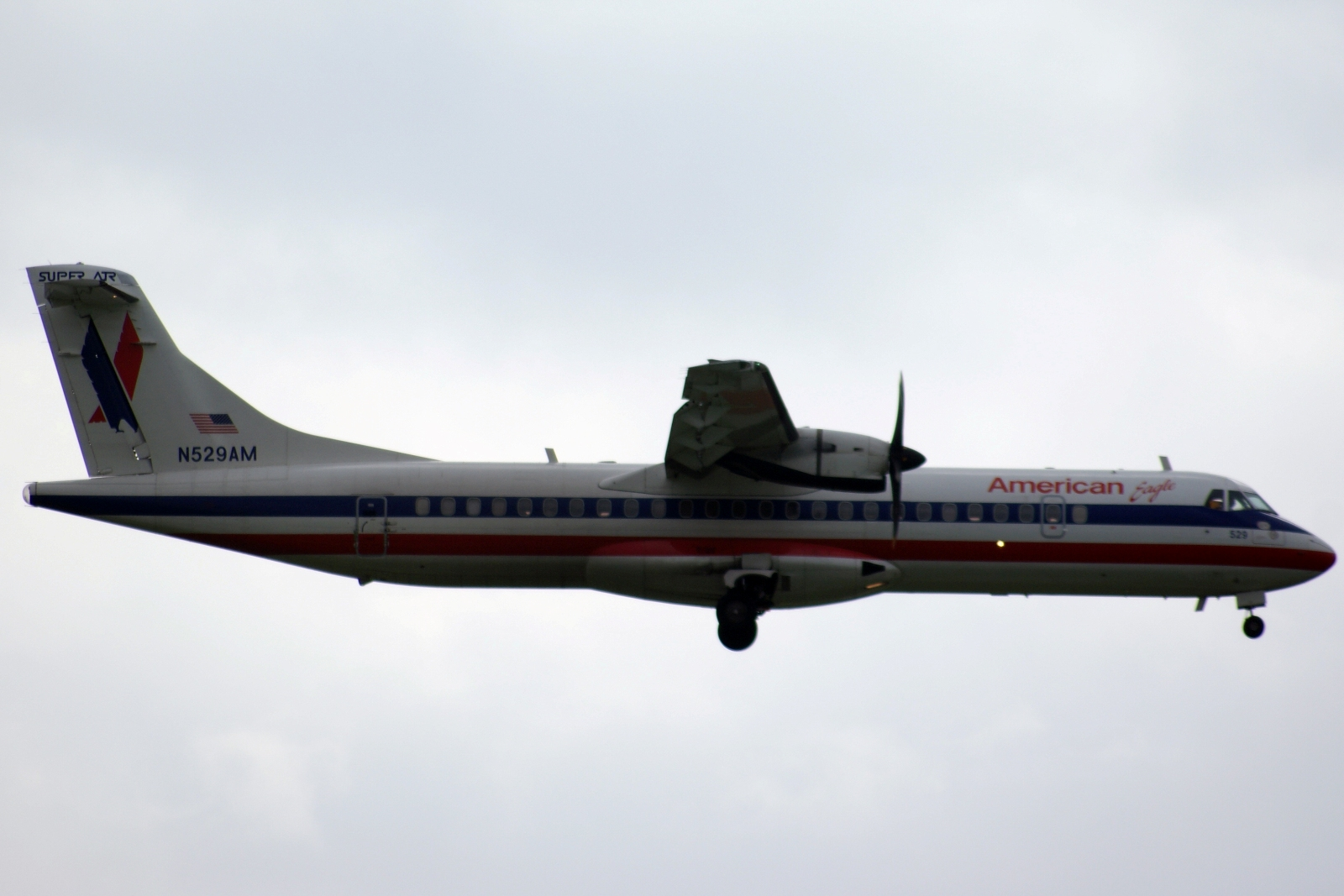 ATR-72-500